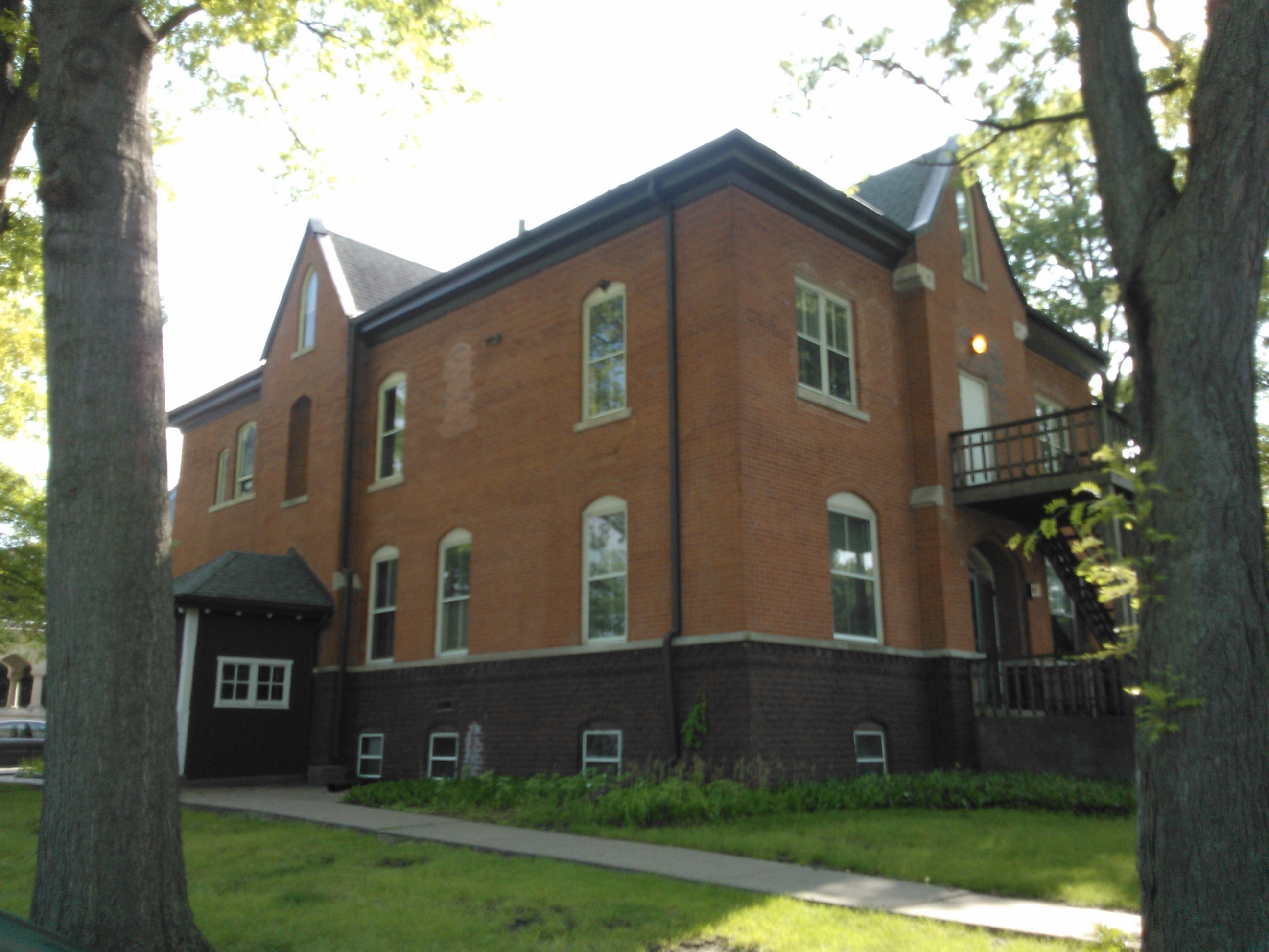 The former Sacred Heart Convent in Davenport, Iowa. The building was listed on the National Register of Historic Places along with the cathedral and rectory. Built in 1902 it was torn down in 2012 not long after this photo was taken.